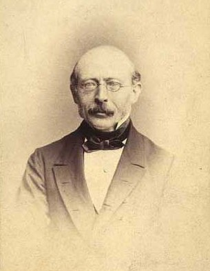 Carl Christopher Georg Andræ (1812-1893), Prime Minister of Denmark, mathematician, and military officer